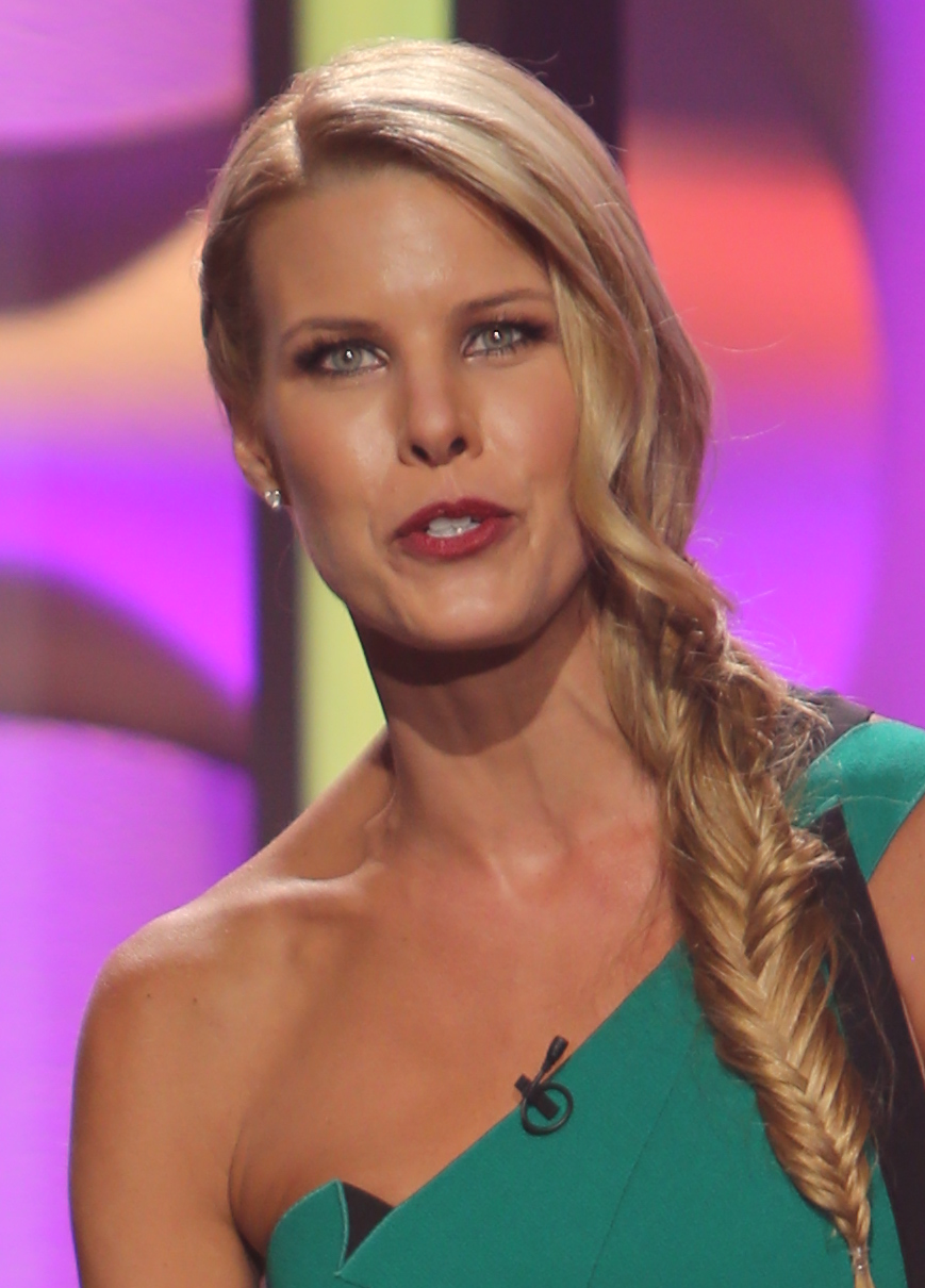 2014 AHA Hero Dog Awards Celebrity Hosts James Denton and Beth Stern